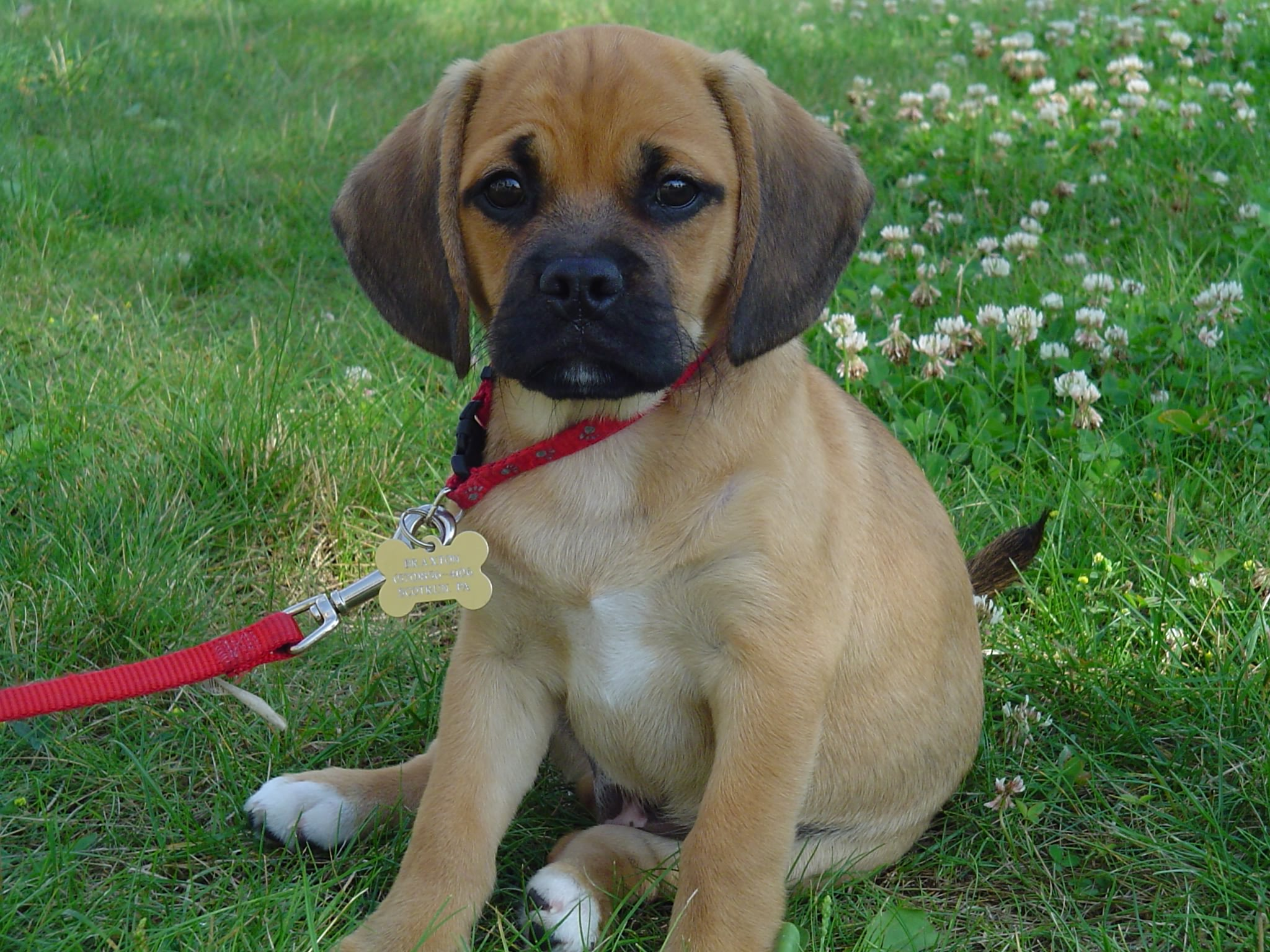 A puggle in Scotrun, PA